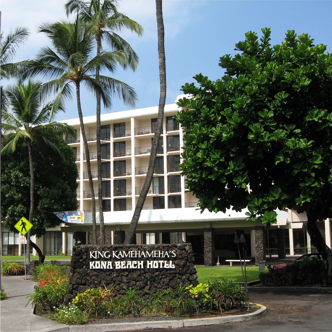 The Kamakahonu National Historic Landmark is now the Kona Beach Hotel. It is the start and end of the Ironman World Championship triathlon.